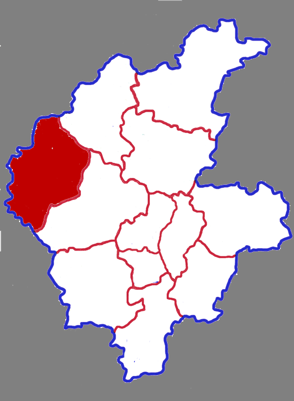 Location of Pingyi county in Linyi City, China